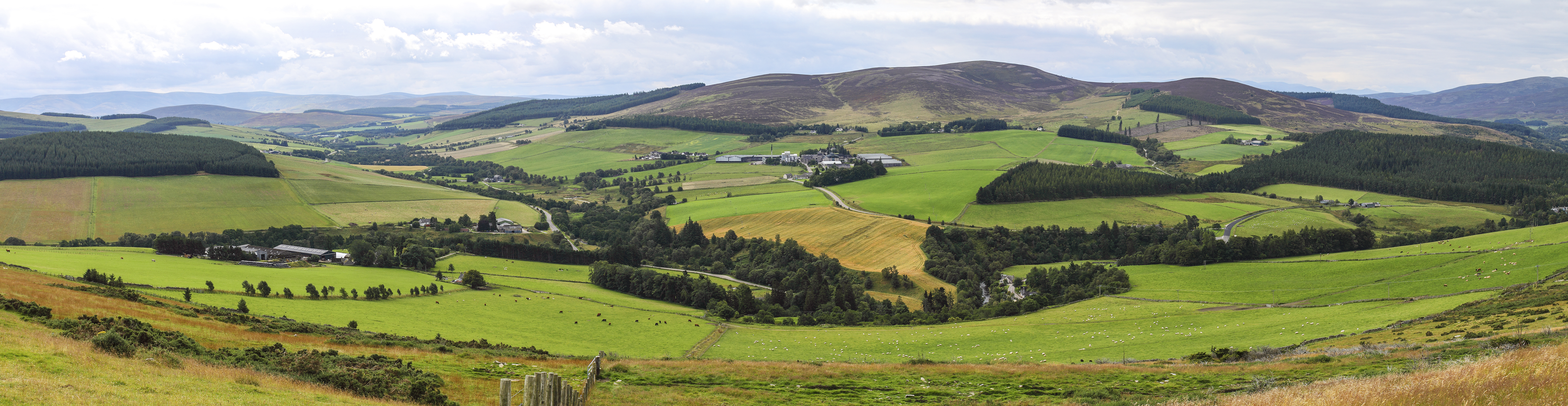 Panorama of Glenlivet near Ballindalloch, Morayshire, Scotland; in the center of the image: The Glenlivet (Whisky-distillery)